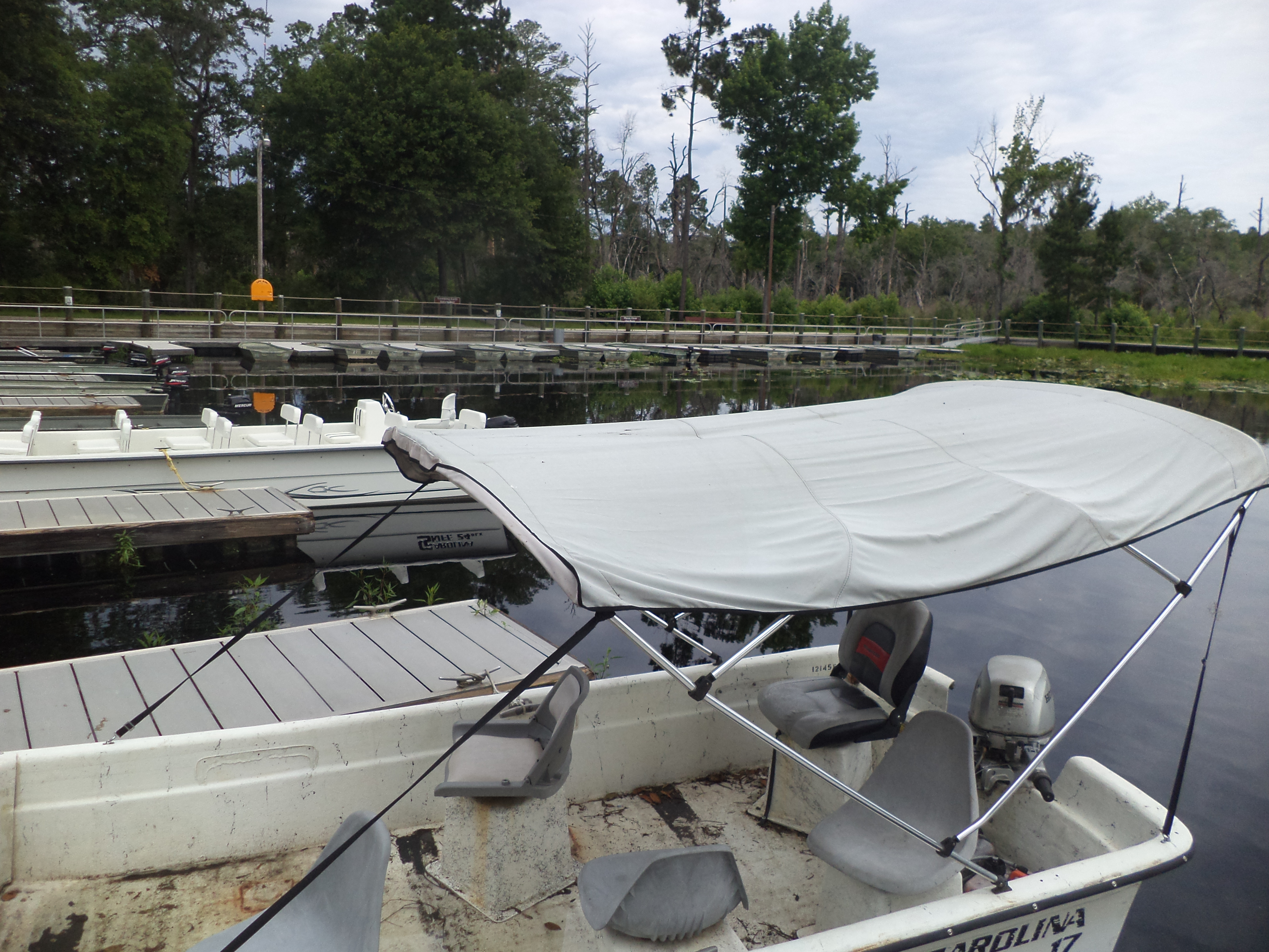 Stephen C. Foster State Park, Charlton County, Georgia